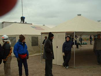 IMSuRT members construct Western Shelters at the United Nations compound in Bam, Iran